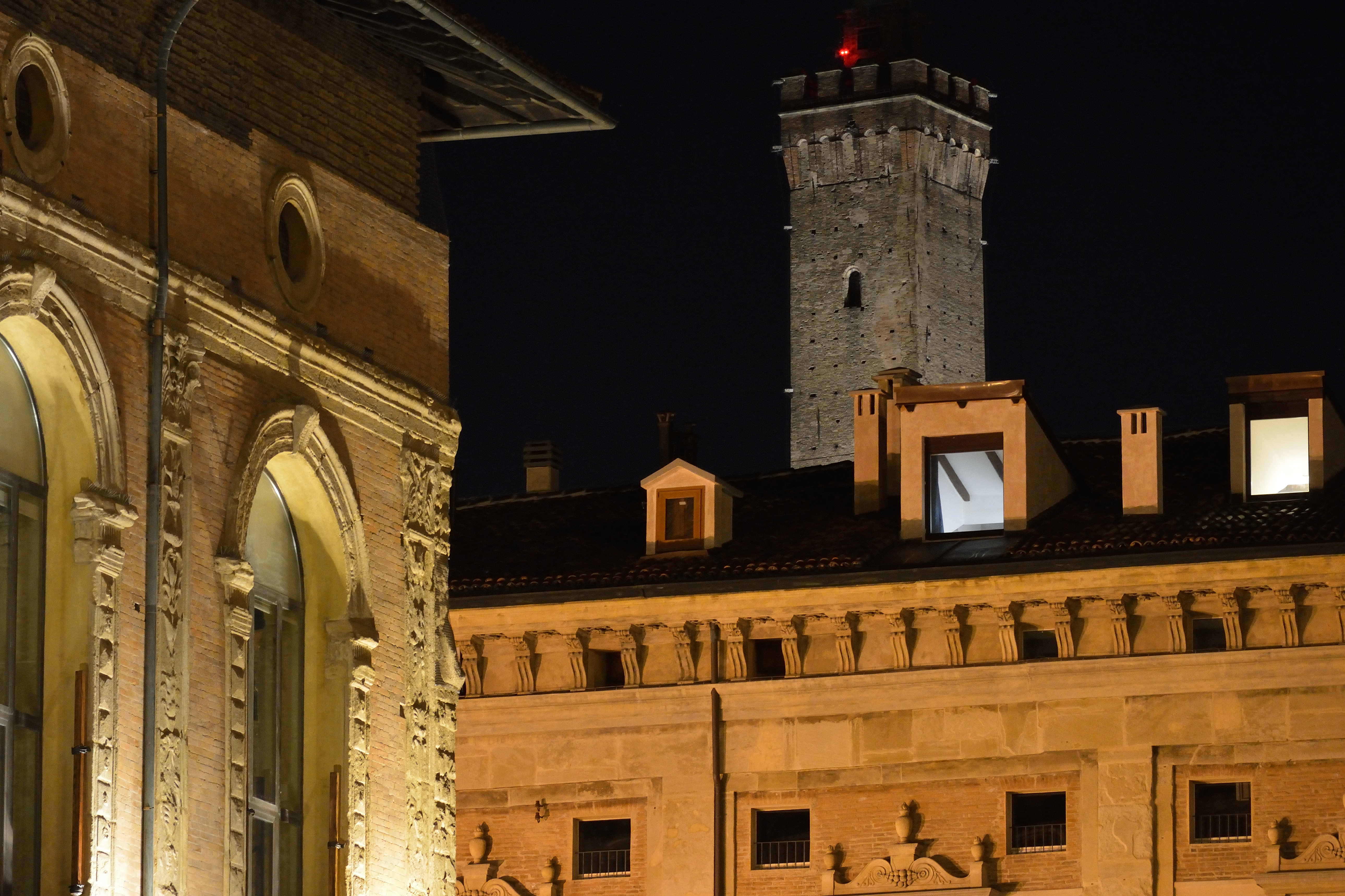 piazza Maggiore- Bologna